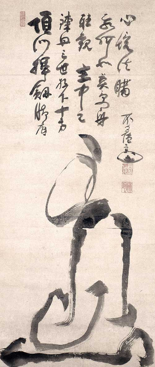 Calligraphy and painting of Zen Master Hakuin by Torei Enji